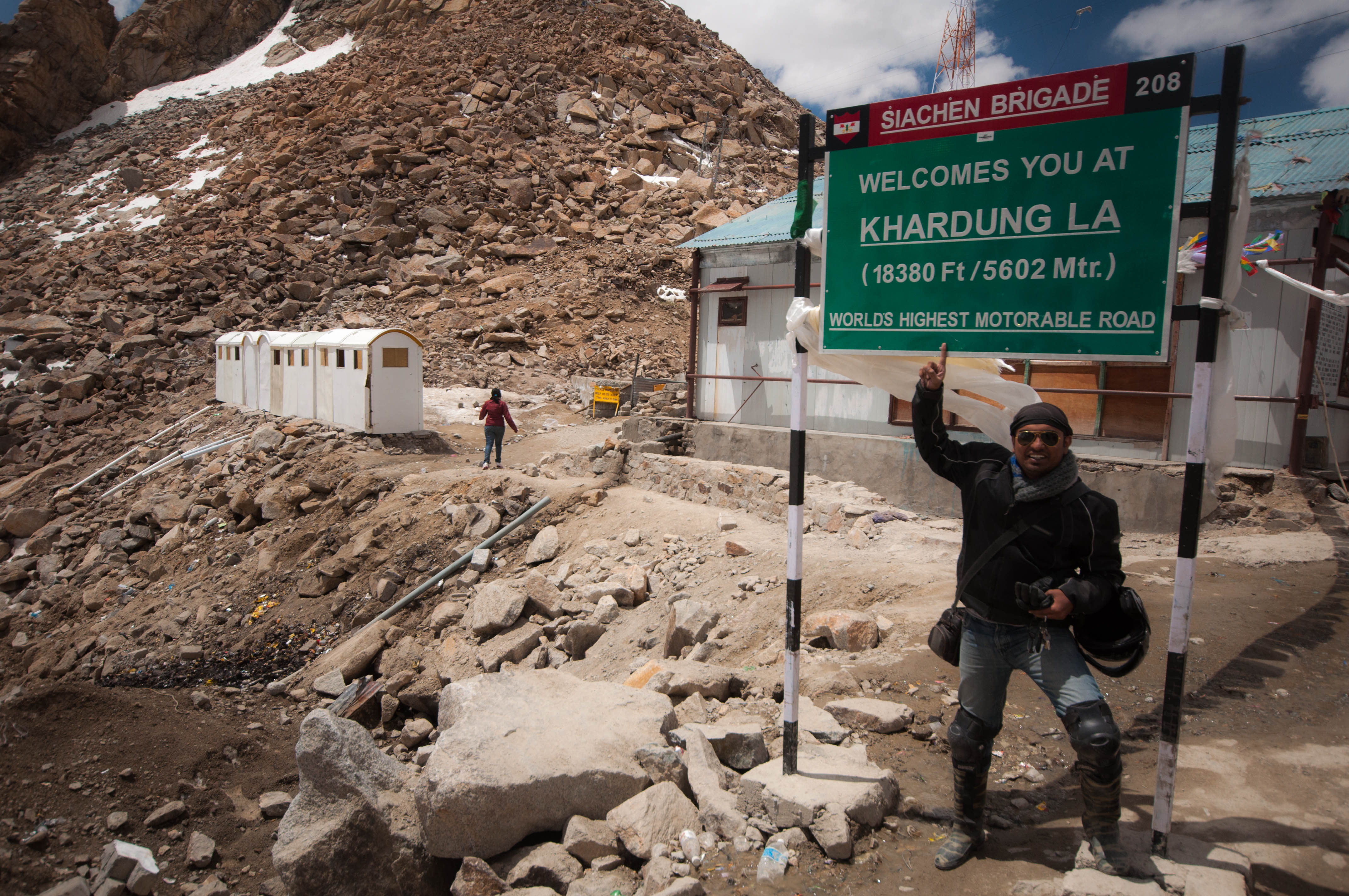 This is the board at khardungla mentioning a height of 18380 feet.